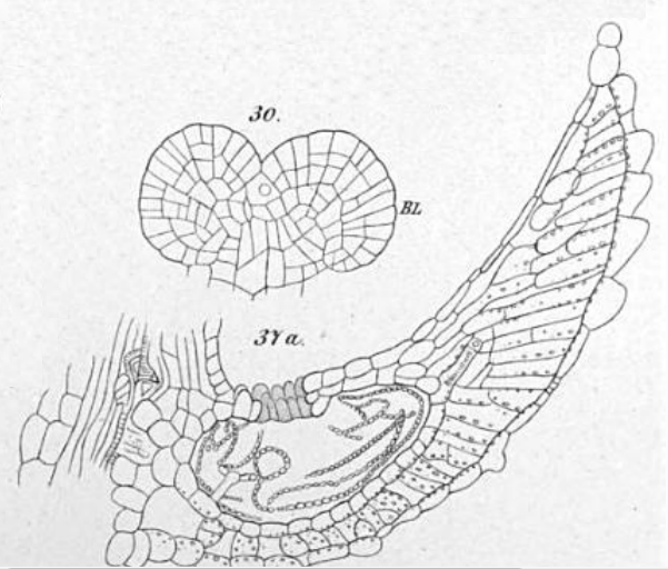 From Eduard Strasburger "Über Azolla"